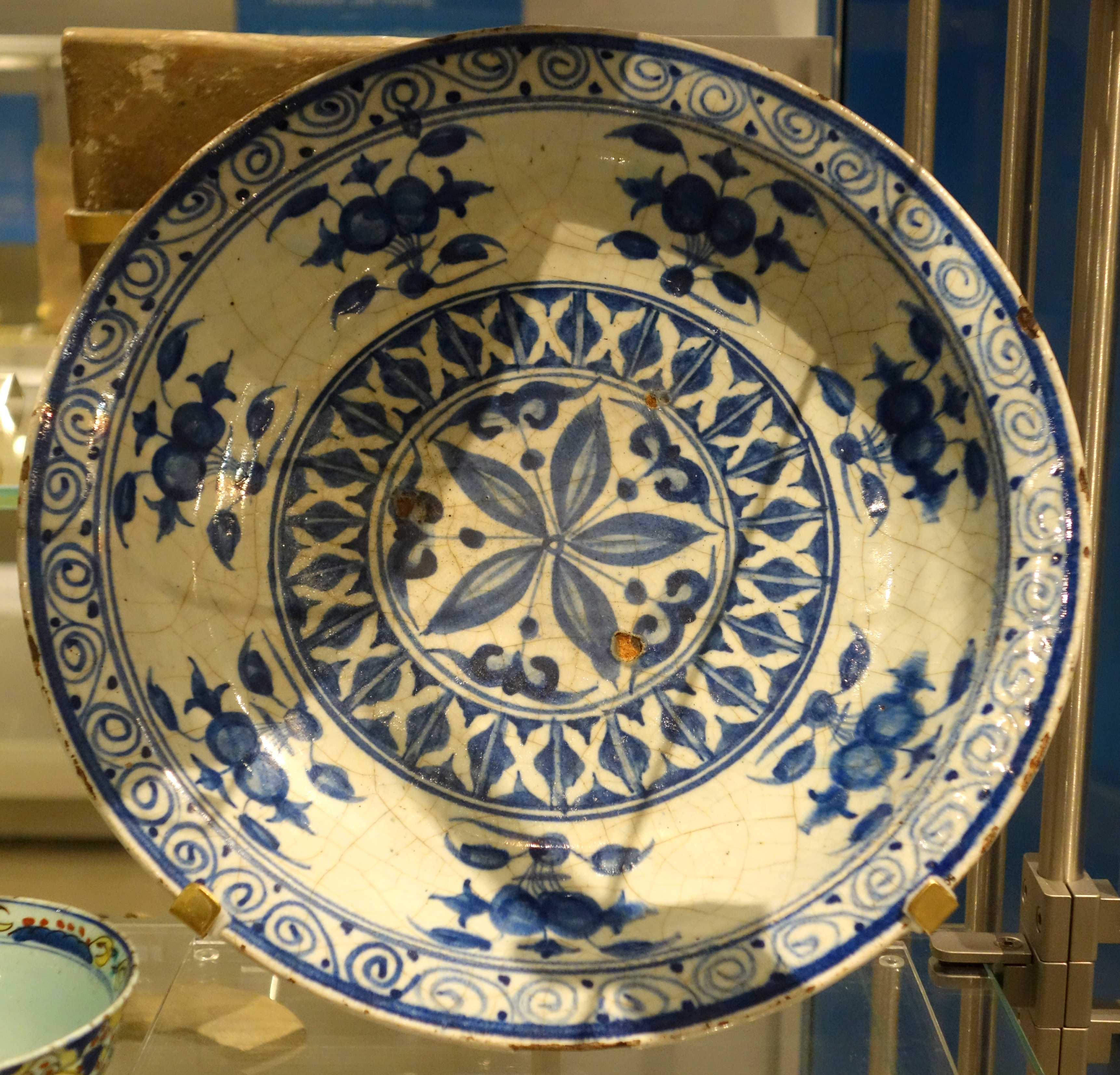 Exhibit in the Royal Ontario Museum, Toronto, Ontario, Canada. This work is old enough so that it is in the public domain.